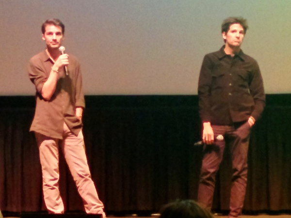 Sven Hansen-Løve and Félix de Givr at a Q&A session for Eden at the Sundance Kabuki in San Francisco, California, United States